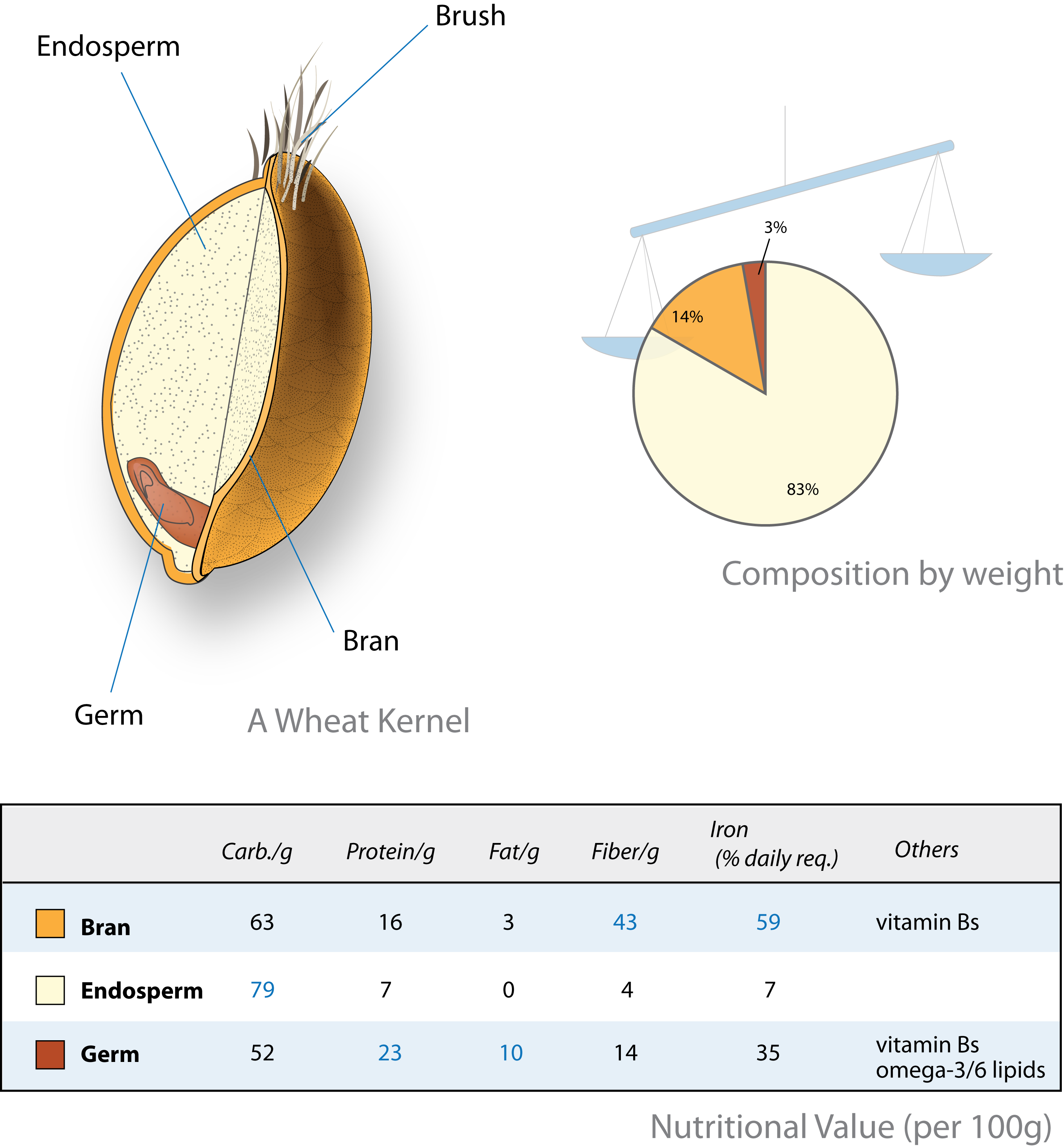 A wheat kernel and its nutritional value. Data sources Illustration and composition of wheat kernel is based on (and simplified from) Berghoff (1998), cited by muehlenchemie, as well as other sources on the internet. Nutritional value: Endosperm Germ Bran Berghoff W, 1998. Längsschnitt durch ein Getreidekorn. aid infodienst Verbraucherschutz Ernährung, Bonn.